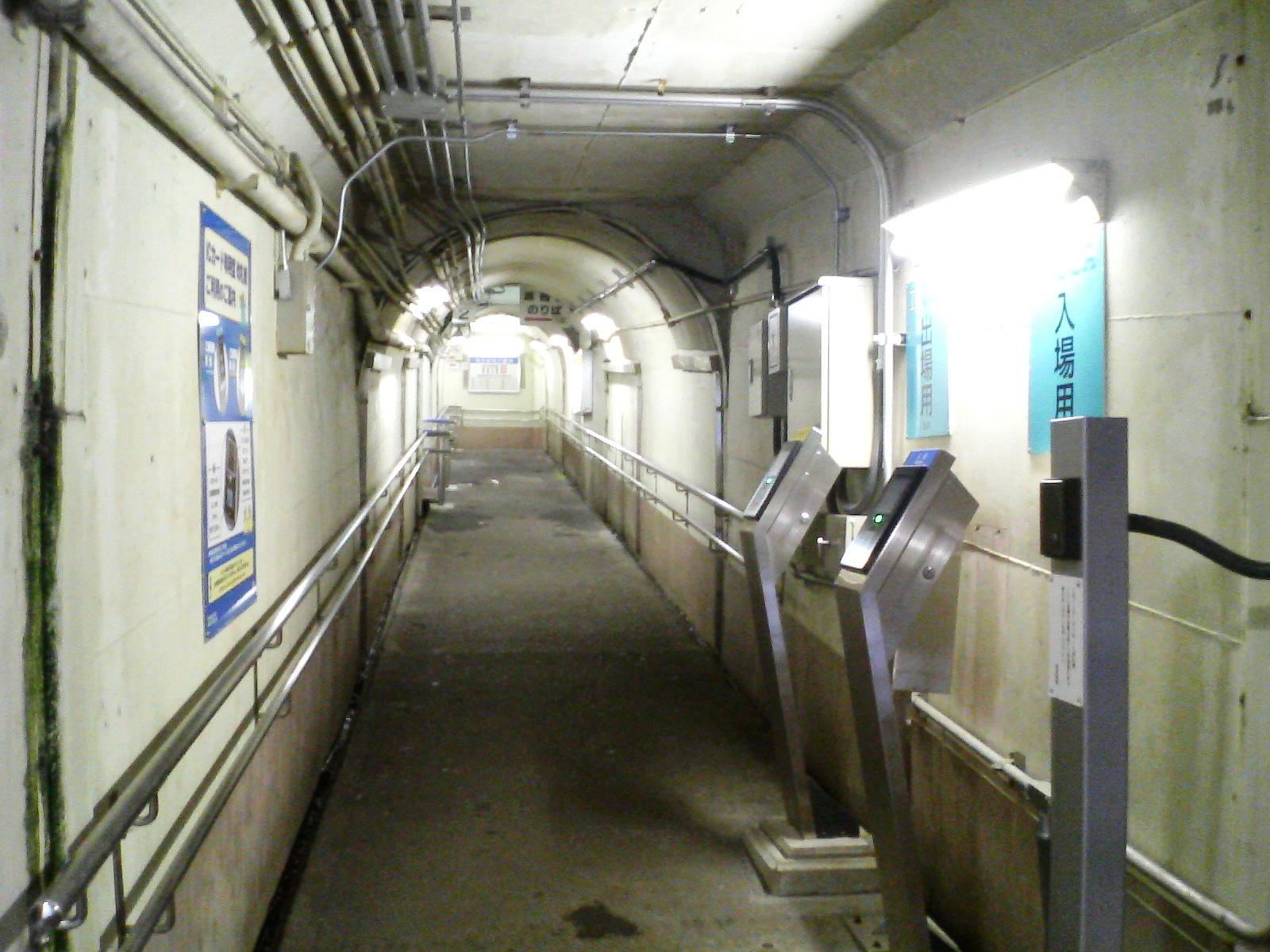 JR Ōmi-Shiotsu Station